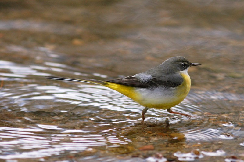 Motacilla cinerea (Grey Wagtail)